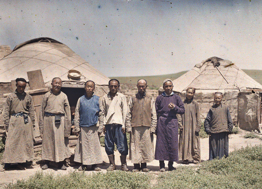 Inner Mongolia, China. Autochrome.